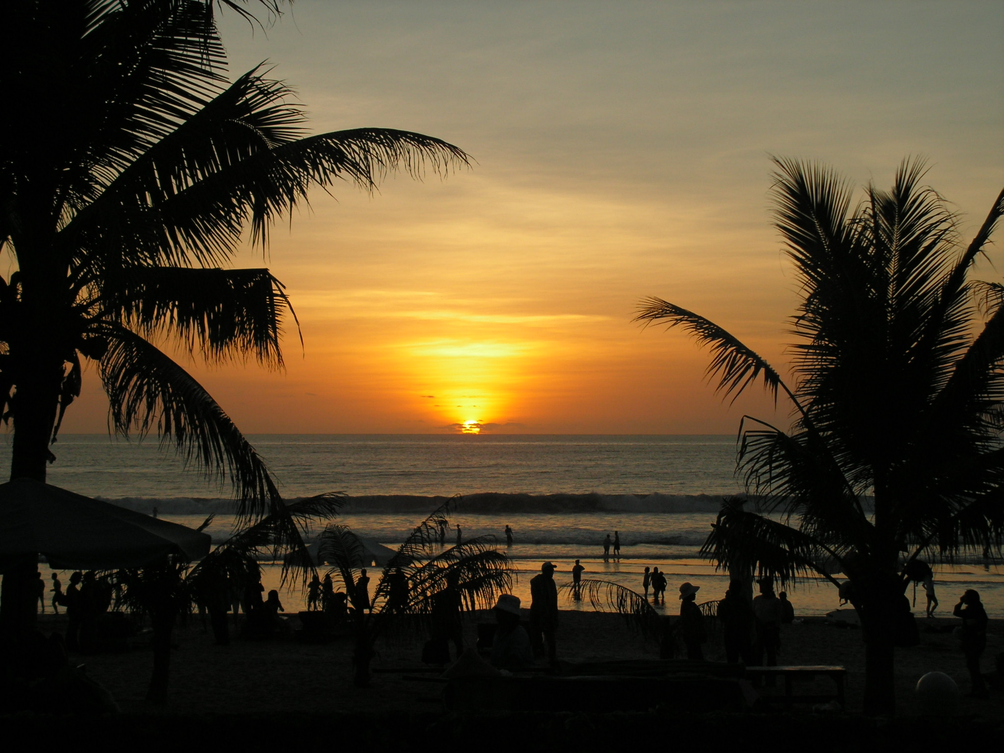 Sunset in Bali, Location